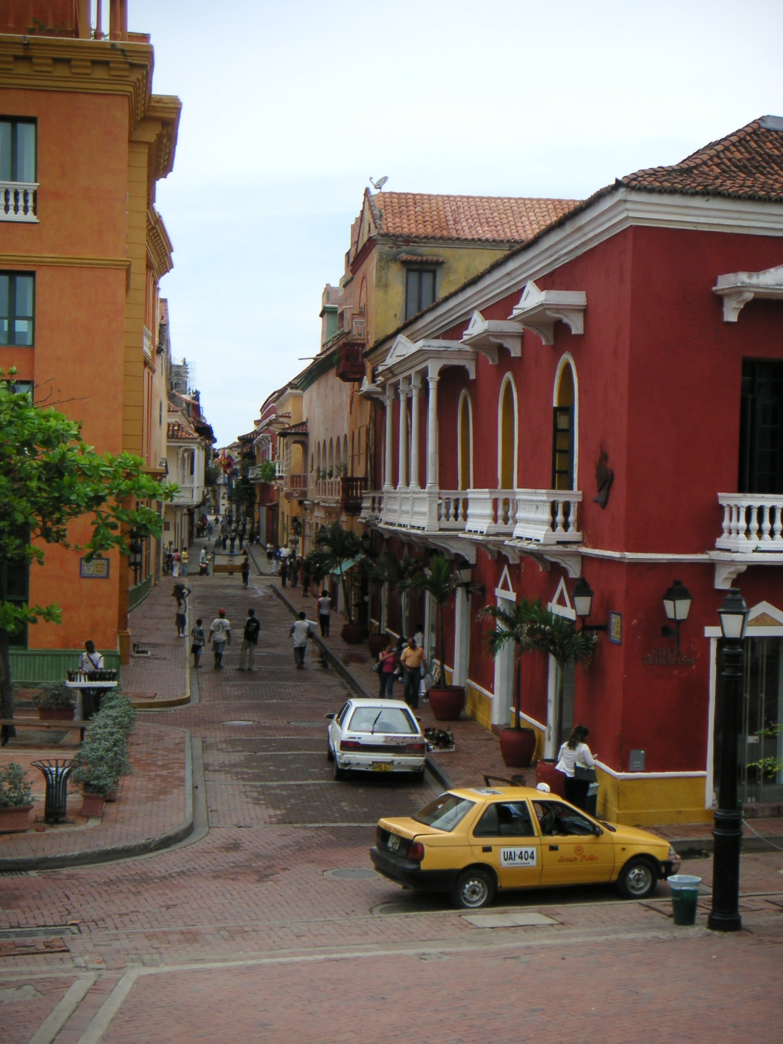 Description: Street of Cartagena, Colombia Source: Louise Wolff (darina), June 2005